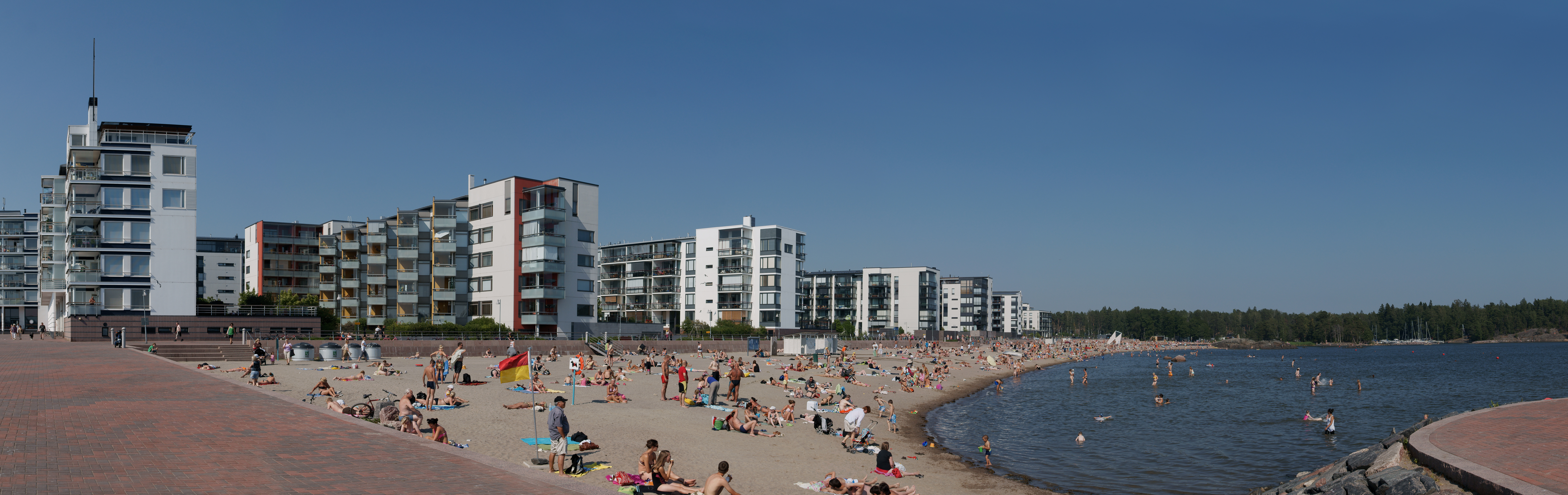 Panorama from Aurinkolahti beach.